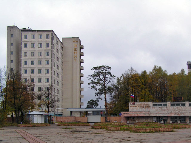 Krasnogorsk Mechanical Works